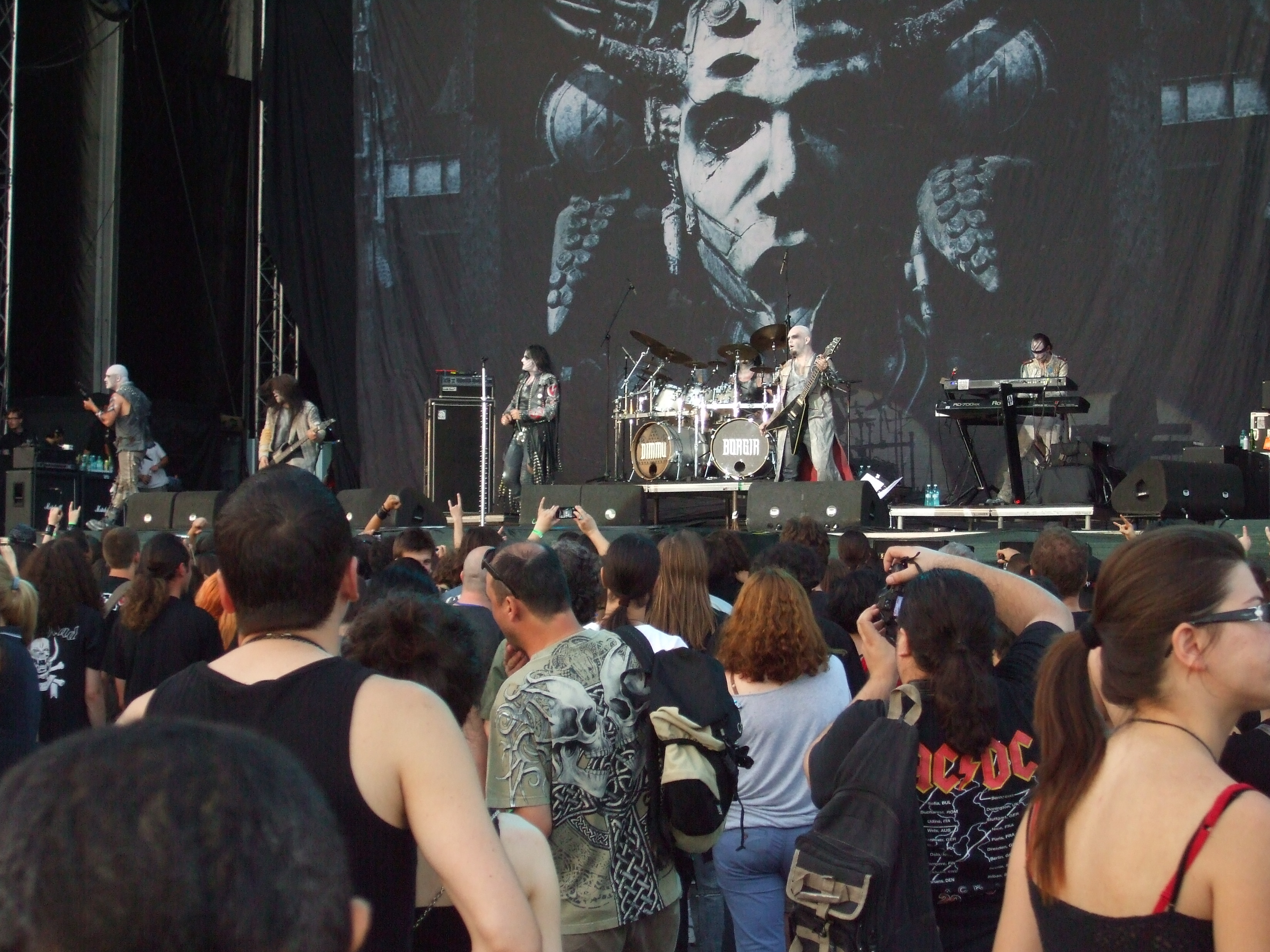 Dimmu Borgir at Ost Fest (Bucharest, Romania) in june 2012. From left to right: Galder, Cyrus, Shagrath, Daray, Silenoz, Gerlioz.